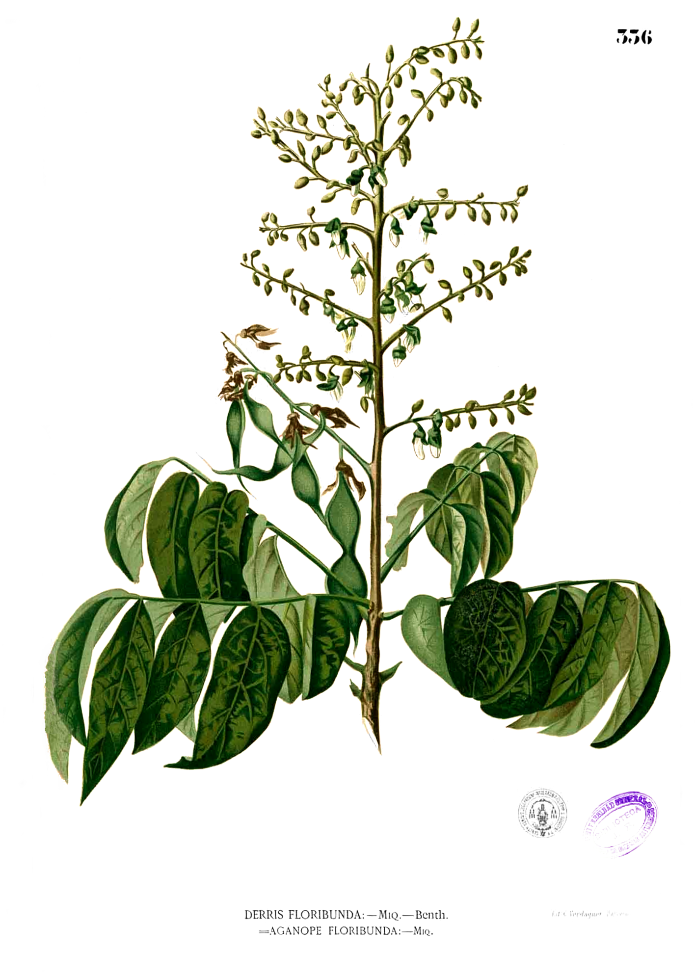 Plate from book